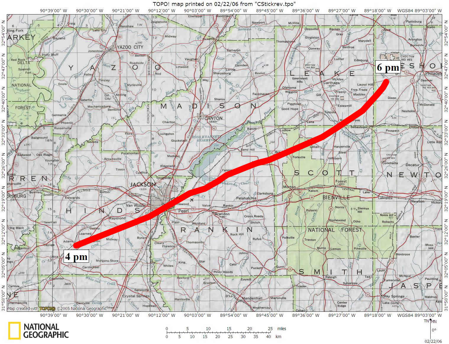 Official track of the 1966 Candlestick Park tornado